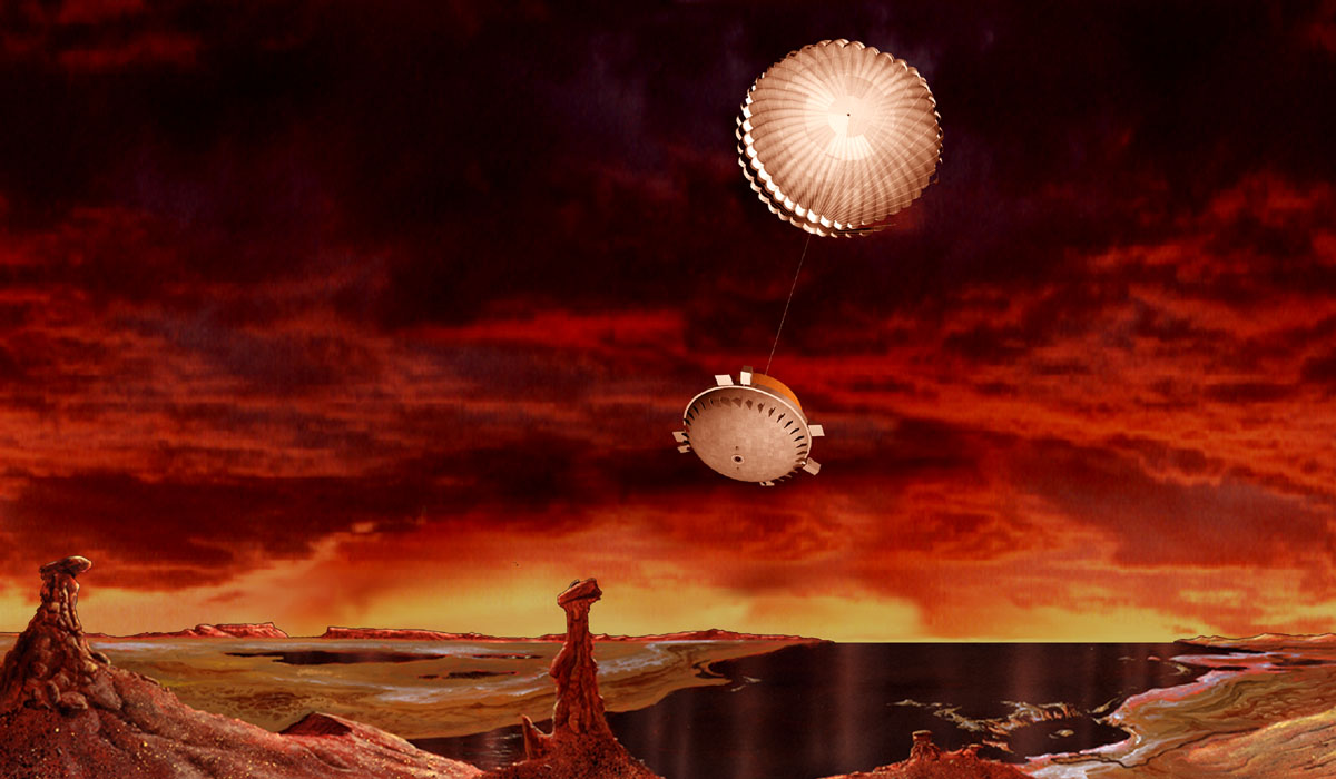 In this artist rendition, the Huygens probe is about to reach the surface of Titan, Saturn's largest moon.